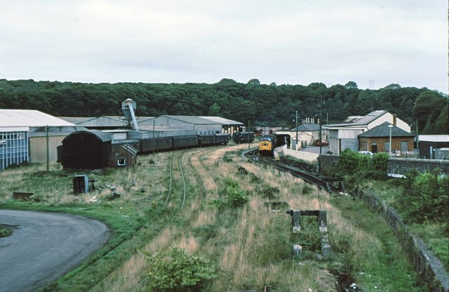 Milford Haven station and yard 1979